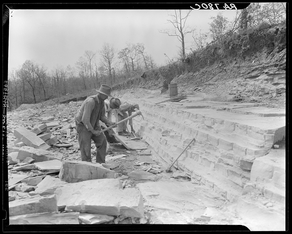 Stone being quarried for use in the construction of the Cumberland Homesteads, near Crossville, Tennessee, USA, in 1935.